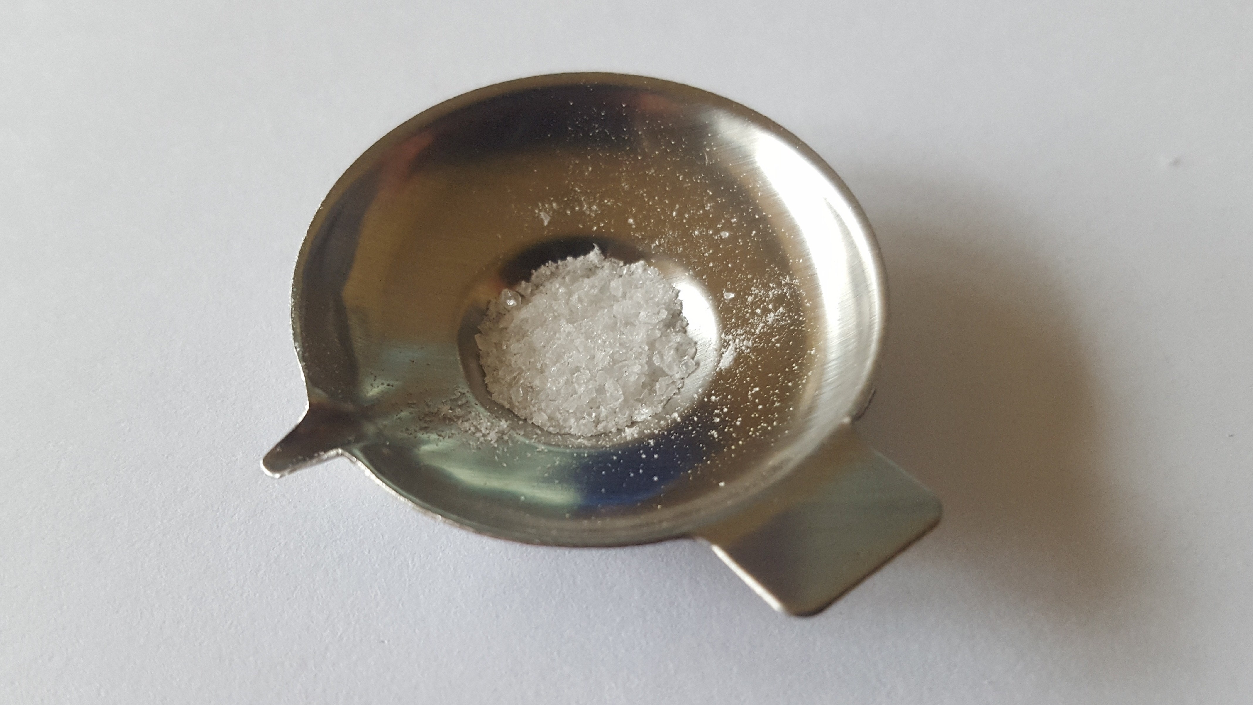 MDA (3,4-Methylene​dioxy​amphetamine) is an empathogen-entactogen, stimulant, and psychedelic drug of the amphetamine family.